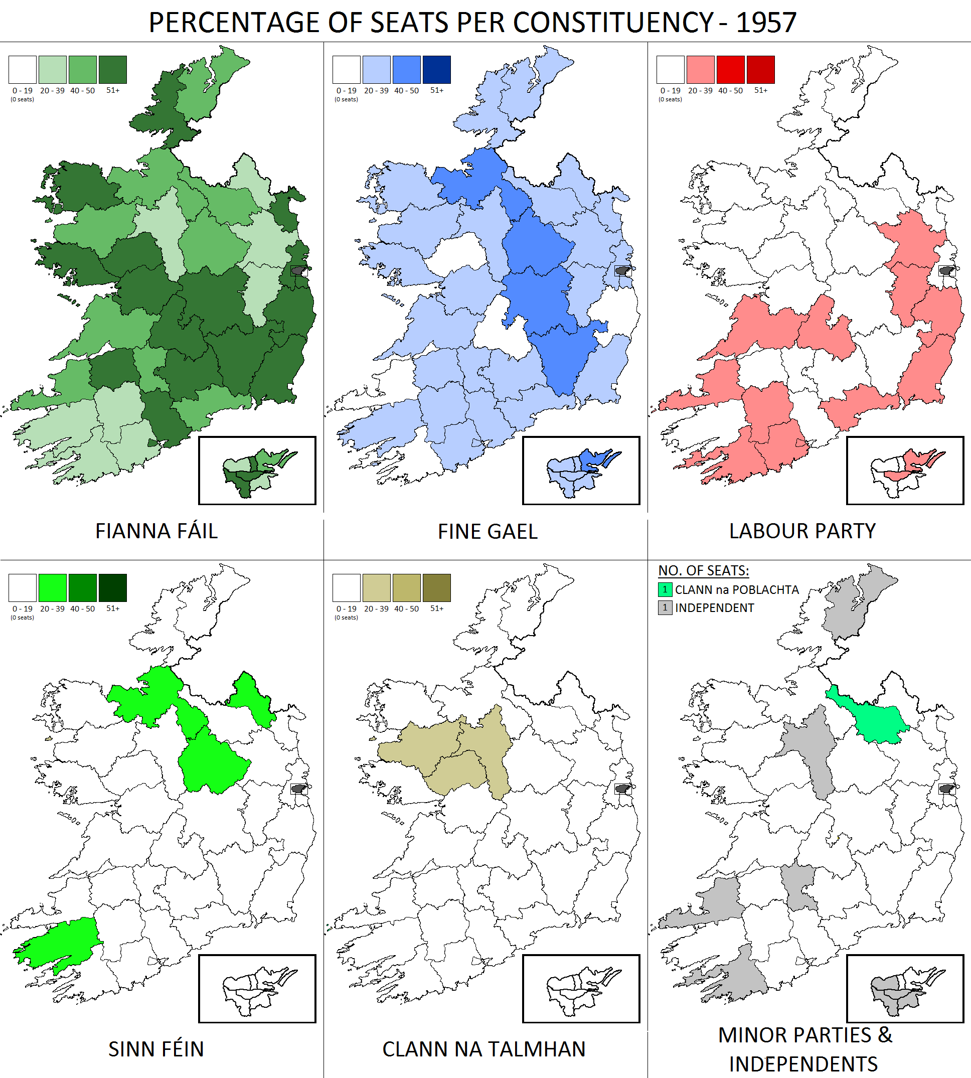 Graphical representation of the 1957 Irish general election results. Created by myself using data from Wikipedia and literary sources.